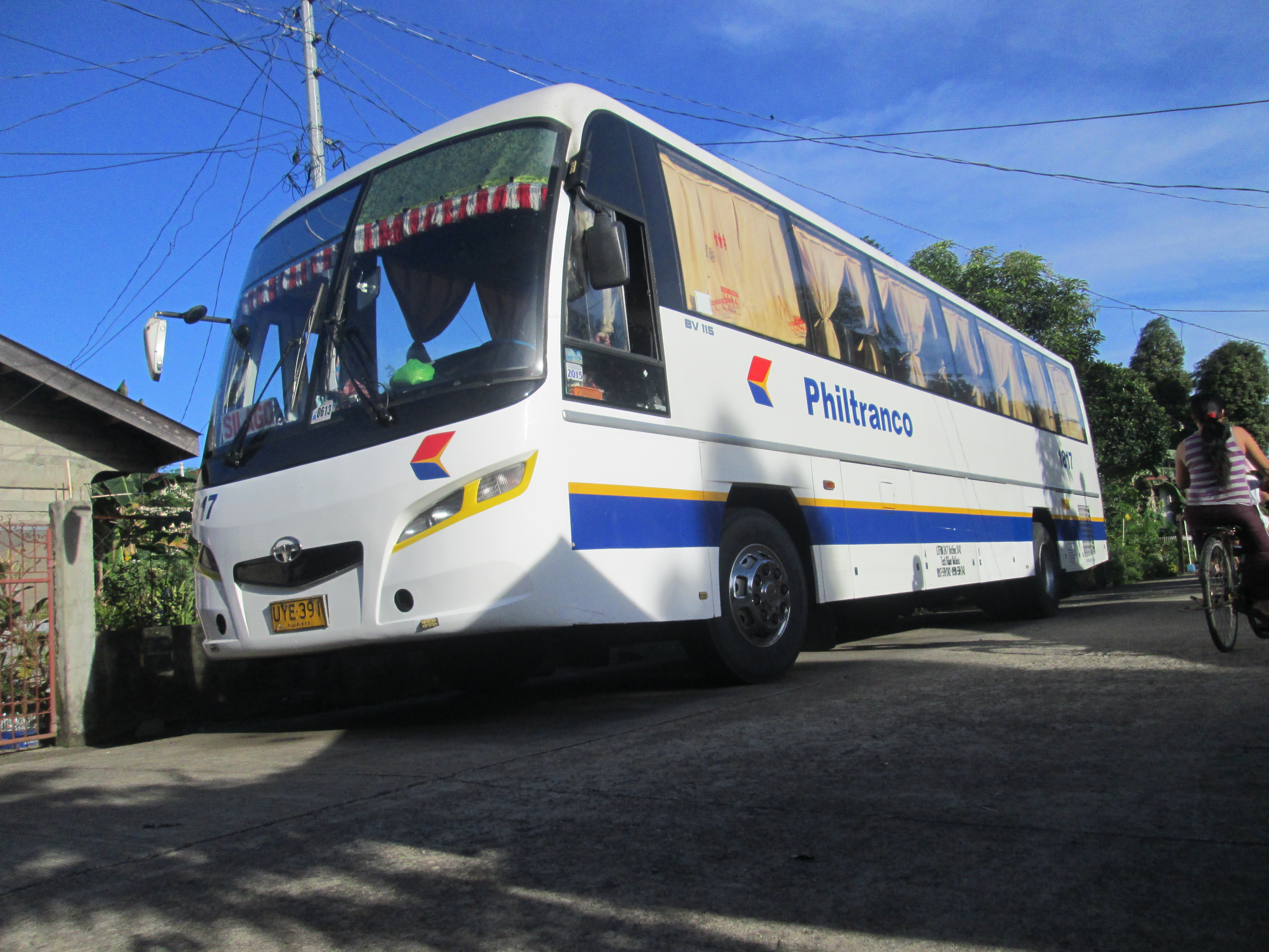 Philtranco bus parked behind municipal hall in Silago, Southern Leyte